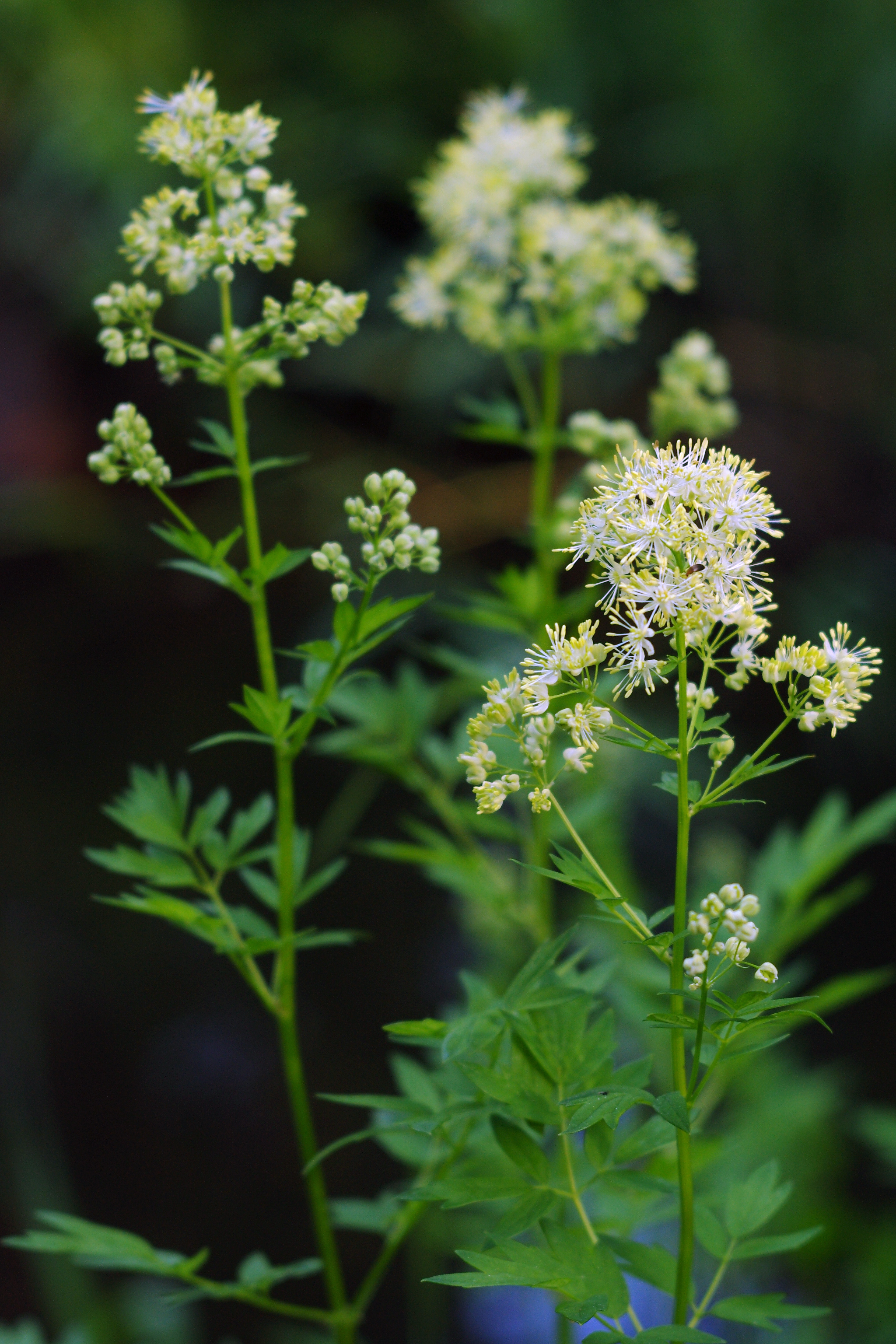 Thalictrum flavum growing in Albu Parish, Estonia.